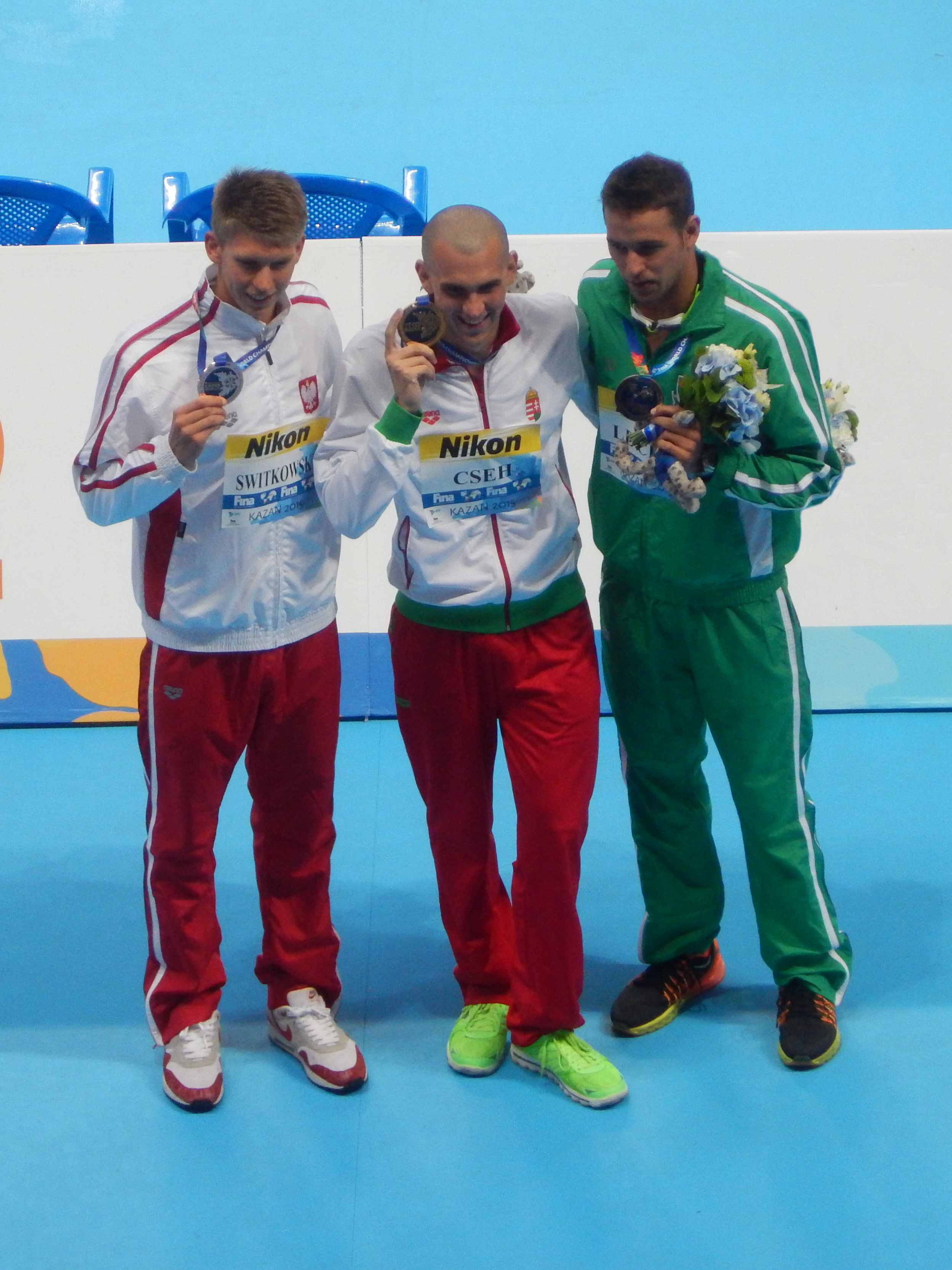 Medallists at the men's 200 metres butterfly in Kazan 2015